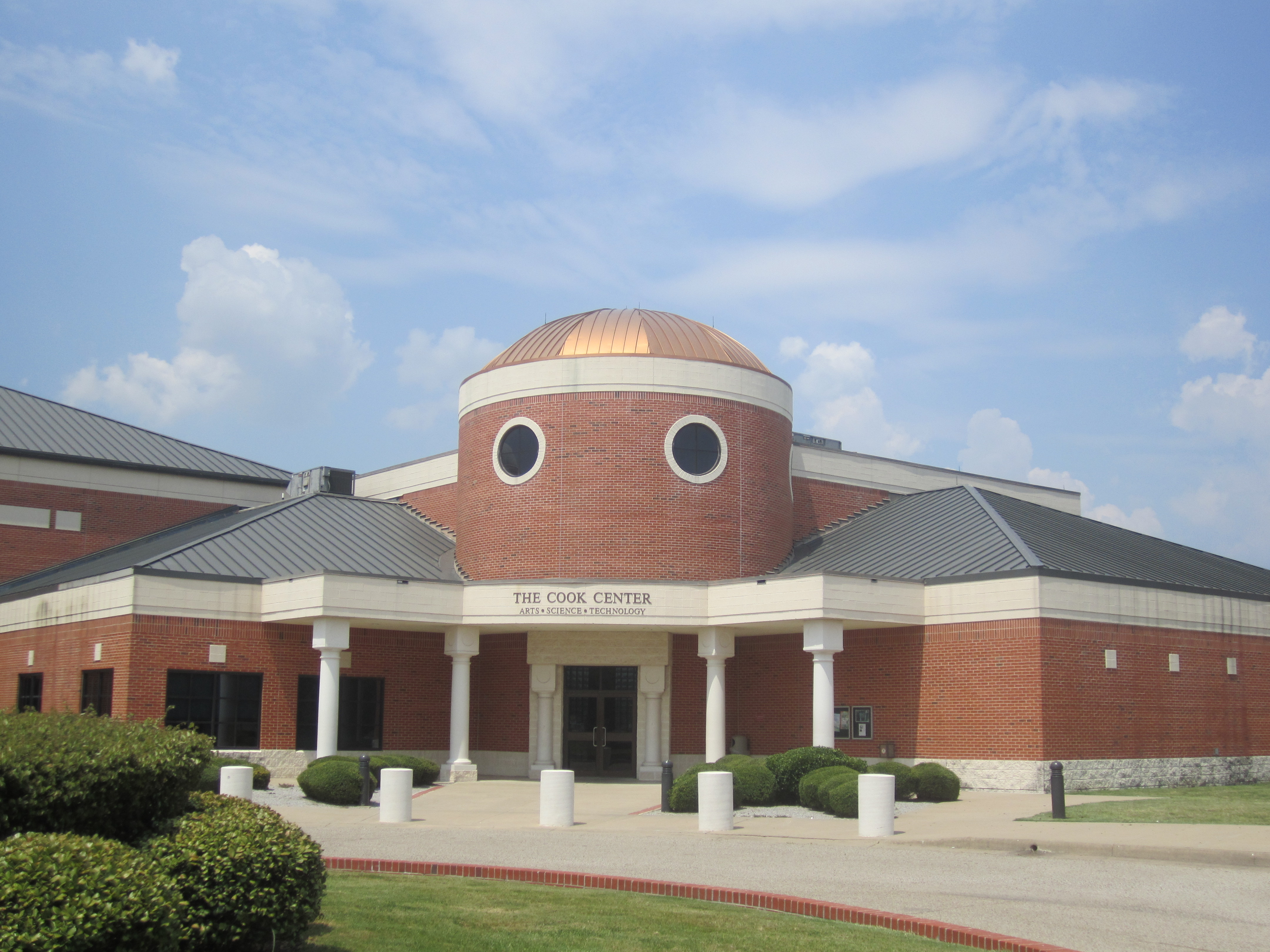 I took photo with Canon camera in Corsicana, TX.